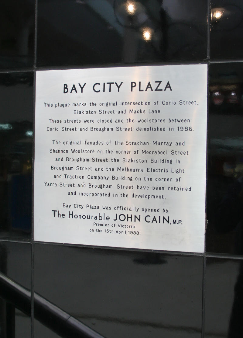 Plaque marking opening of Bay City Plaza, Geelong (now known as Westfield Geelong). Affixed to the large black tiled archway in the main atrium. Removed as part of the 2008 renovations to the centre.